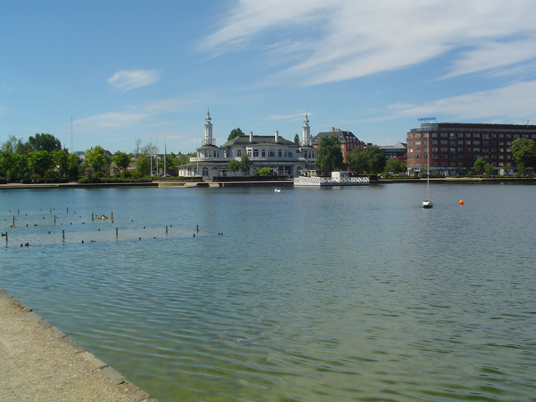 The Lakes in Copenhagen. Søpavillionen in the centre. Picture by me on 27/5-2005